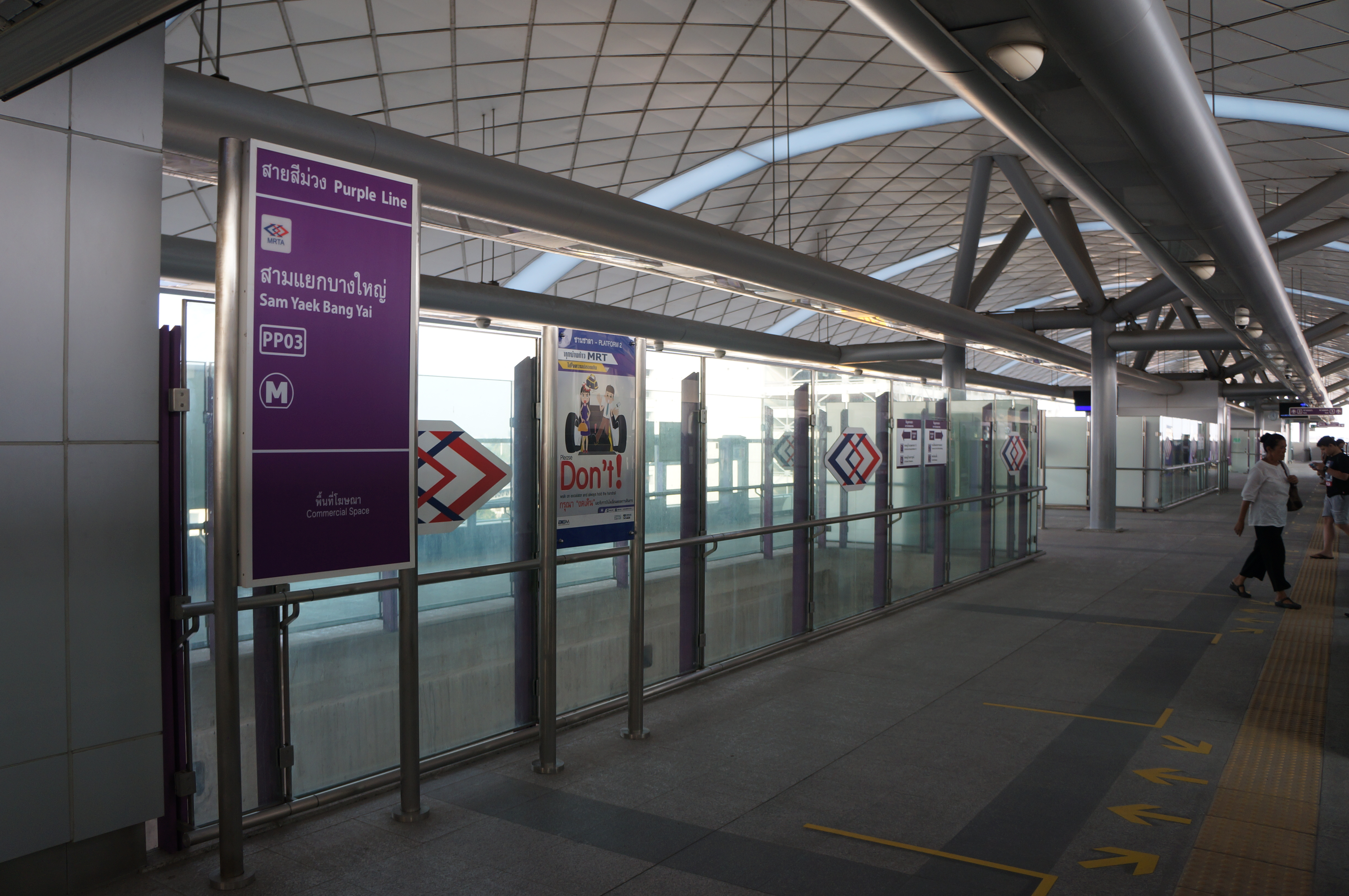 201701 Sam Yaek Bang Yai Station. It sounds like the combination of Sam Yan and Bang Rak Yai for non-Thai speakers.